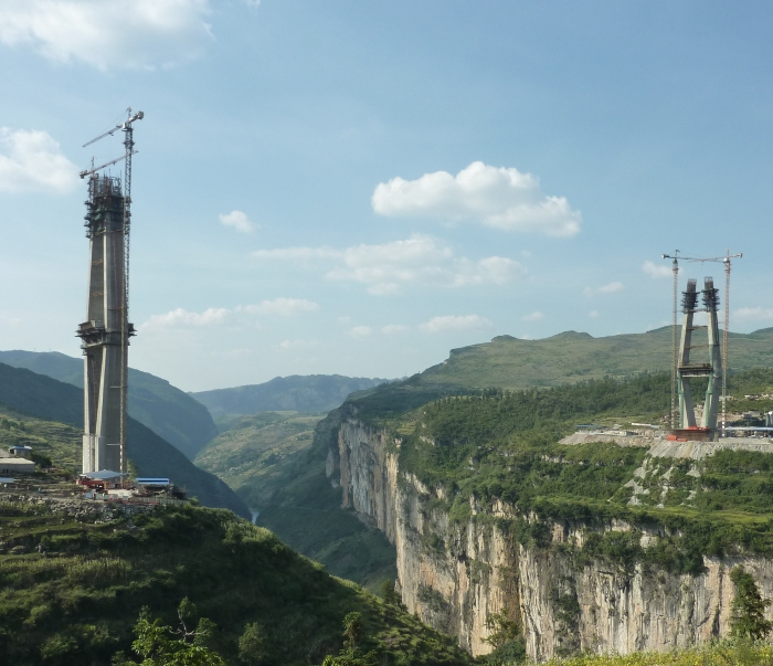 The Liuchonghe Bridge is a cable-stayed bridge in Guizhou Province of China